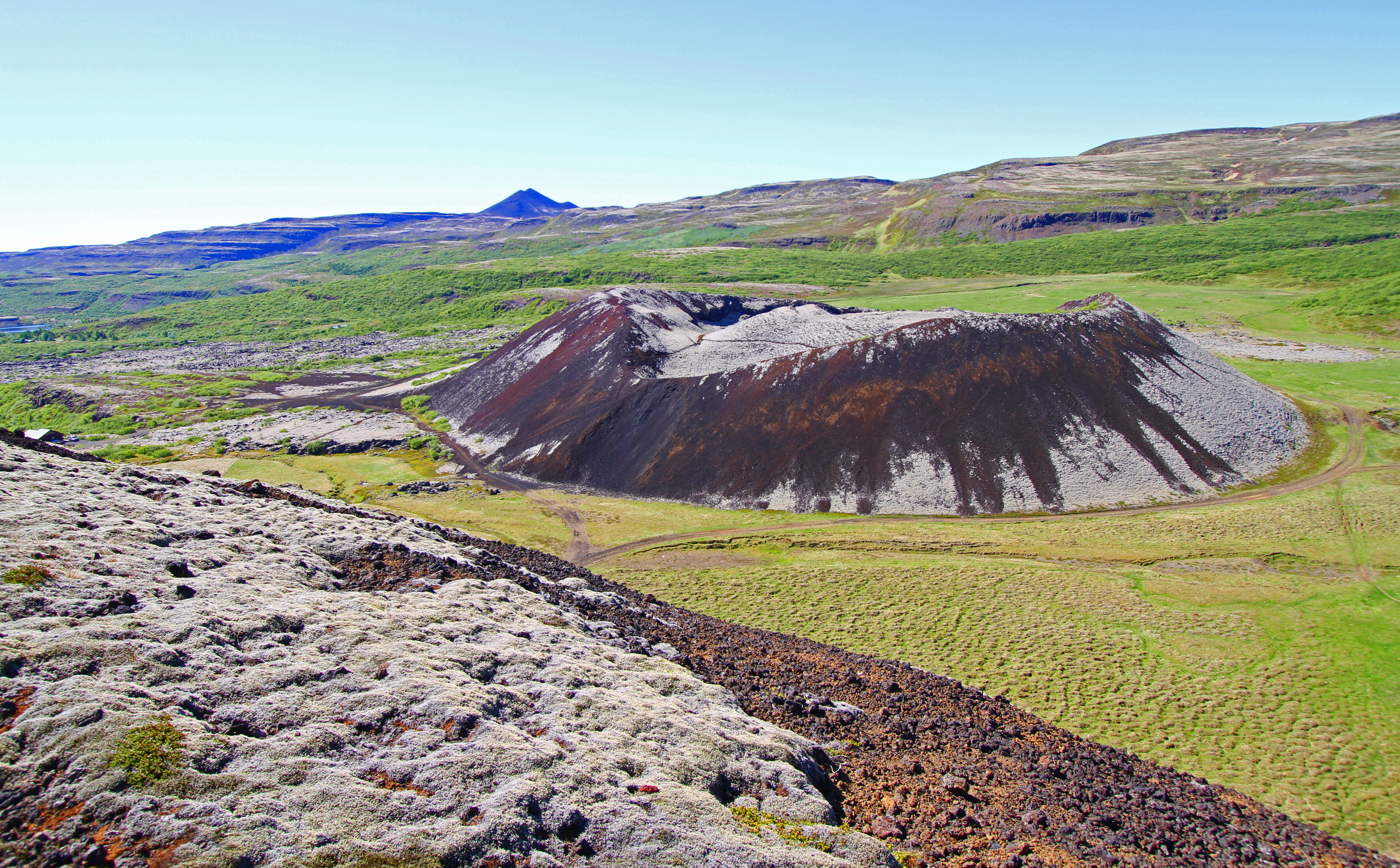 Grábrók volcanic field